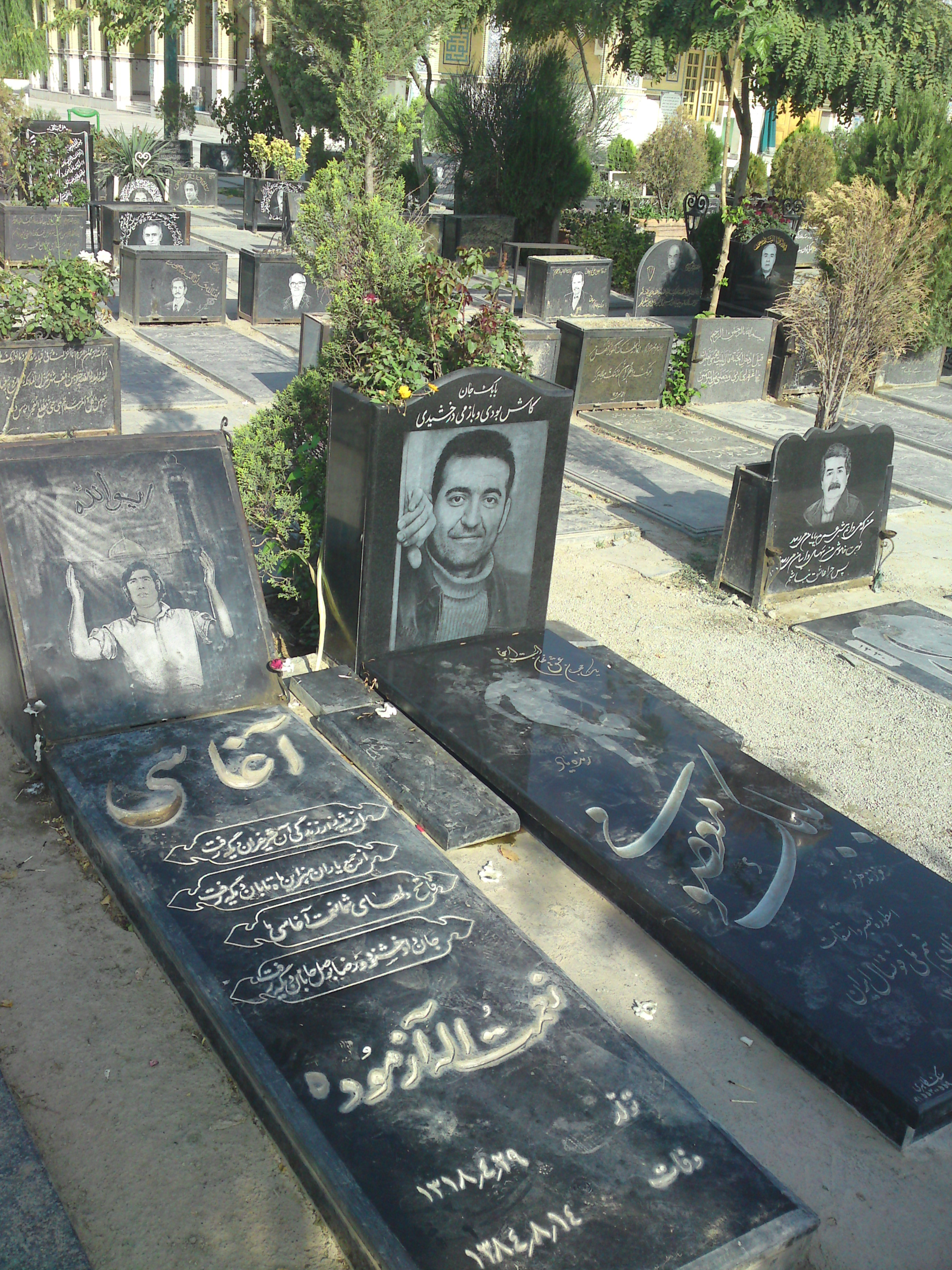 Nematollah Aghasi gravestone in Imamzadeh Taher Cemetery; Tehran.